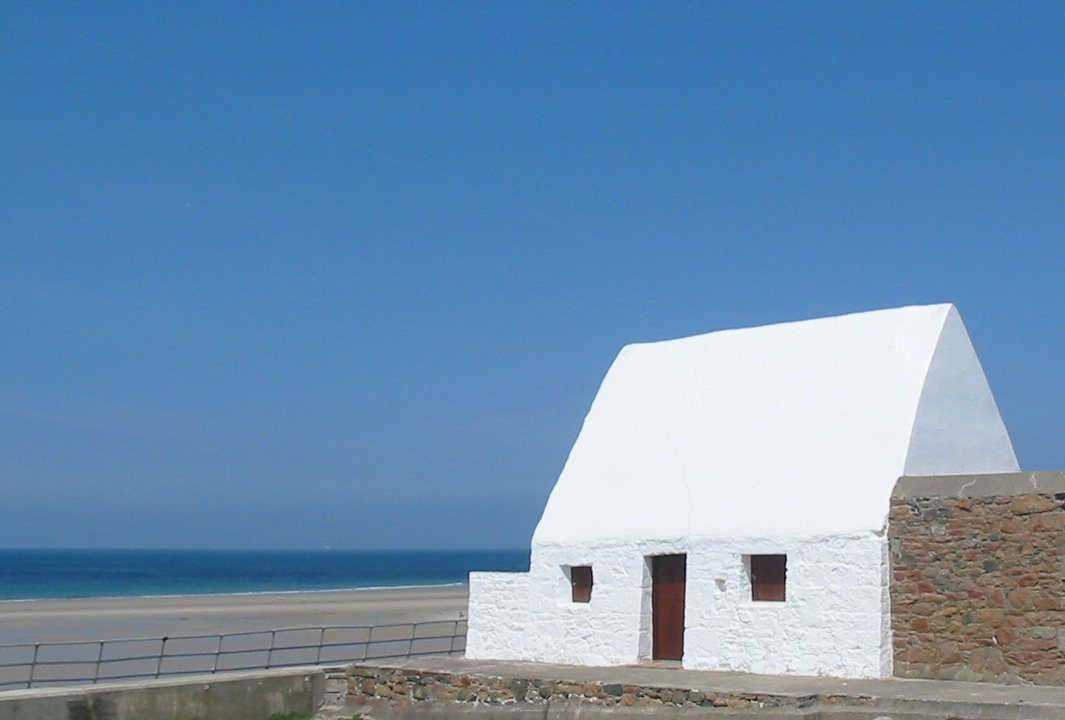 La Cauminne à Mary Best, landmark in St. Ouen's Bay, Jersey. A former coastal guardhouse, now a property of the National Trust for Jersey (Le Don Hilton) Photo taken by Man vyi with Canon PowerShot A40 on 22/7/2005